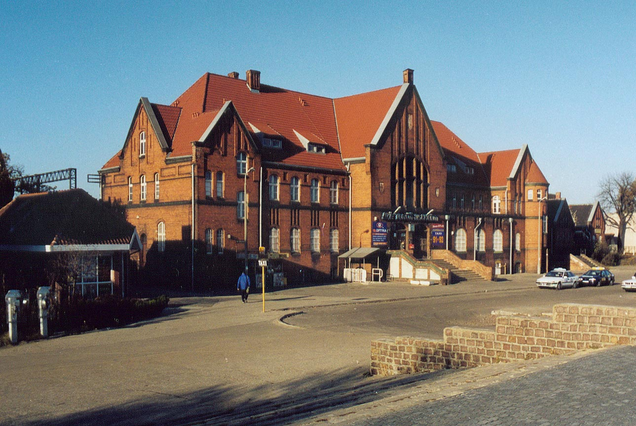 Toruń, Poland, Toruń Wschodni railway station